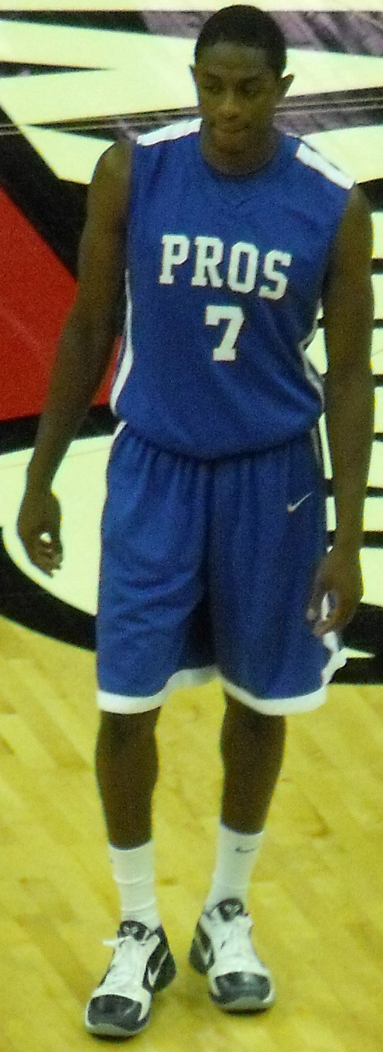 Brandon Knight during the 2011 NBA lockout, playing for "The Pros" in an exhibition game against the Dominican Republican national team at the Yum! Center in Louisville, Kentucky on 16 August 2011